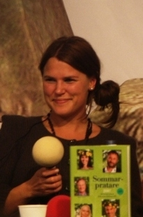 Swedish TV and radio comedian Mia Skäringer at the Gothenburg bookfair 2008